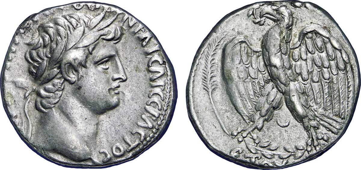 Othon